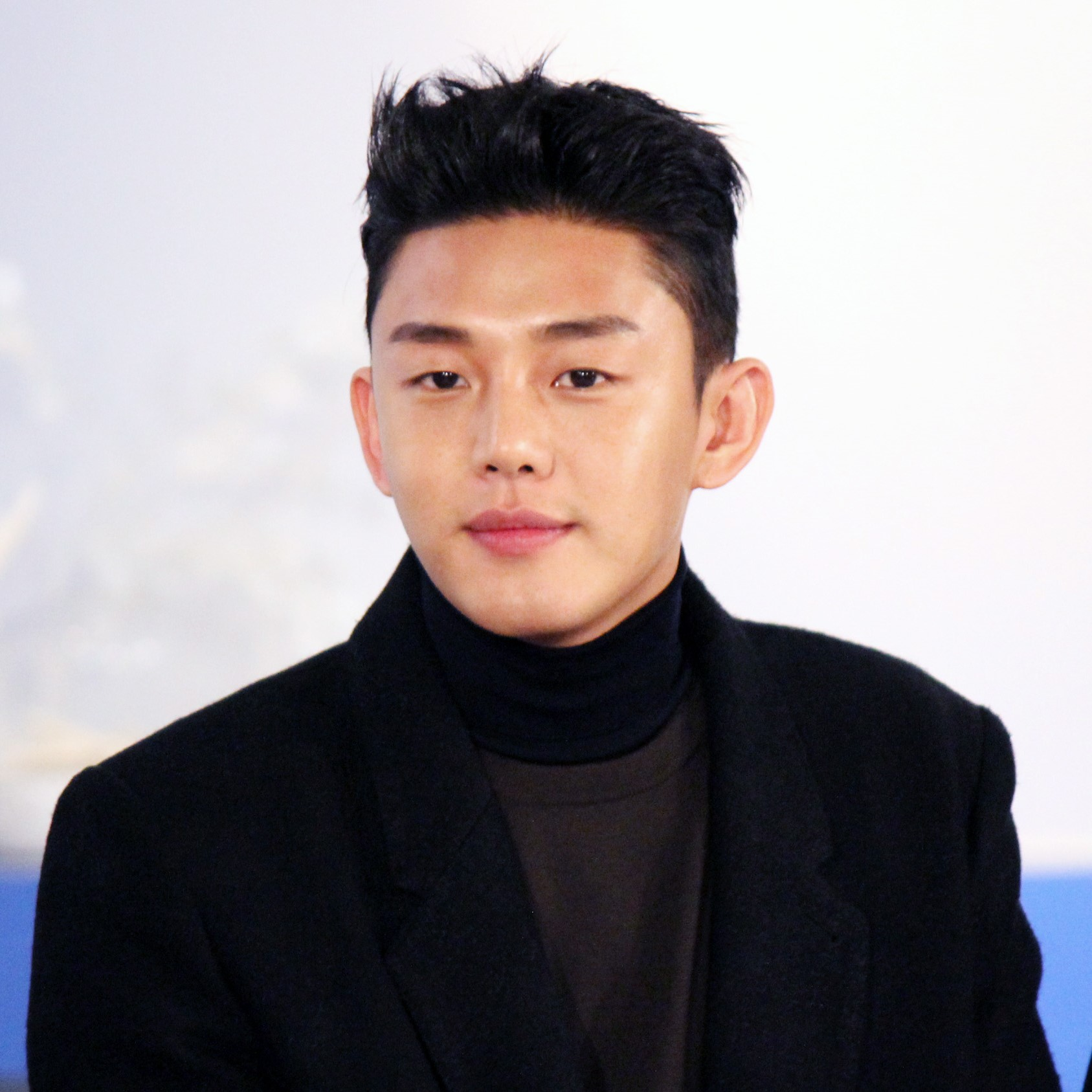 20131005 Yoo Ah-In (유아인) attended BIFF Star&Shake Talk